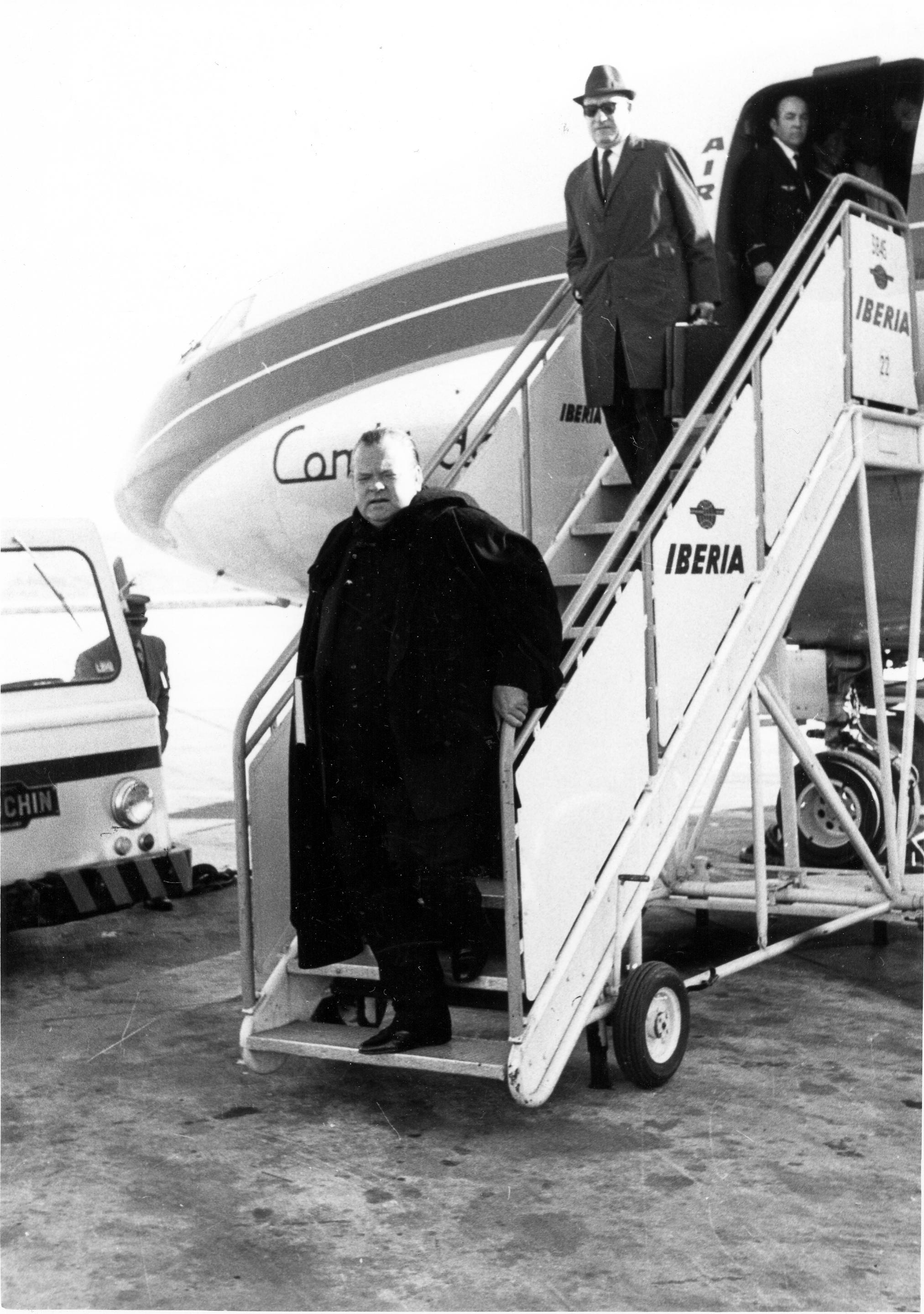 The actor Orson Welles posing on the steps of the plane on arrival in Madrid.Posted by Iberia Airlines 2004-03-05 11:52:34 as part of its "Distinguished Passengers" photoset."Early in the year [1954], OW begins filming Mr. Arkadin; shooting progresses over eight months in Madrid, other Spanish locations…" (Source: Orson Welles and Peter Bogdanovich, This is Orson Welles, Welles career chronology by Jonathan Rosenbaum, page 415)